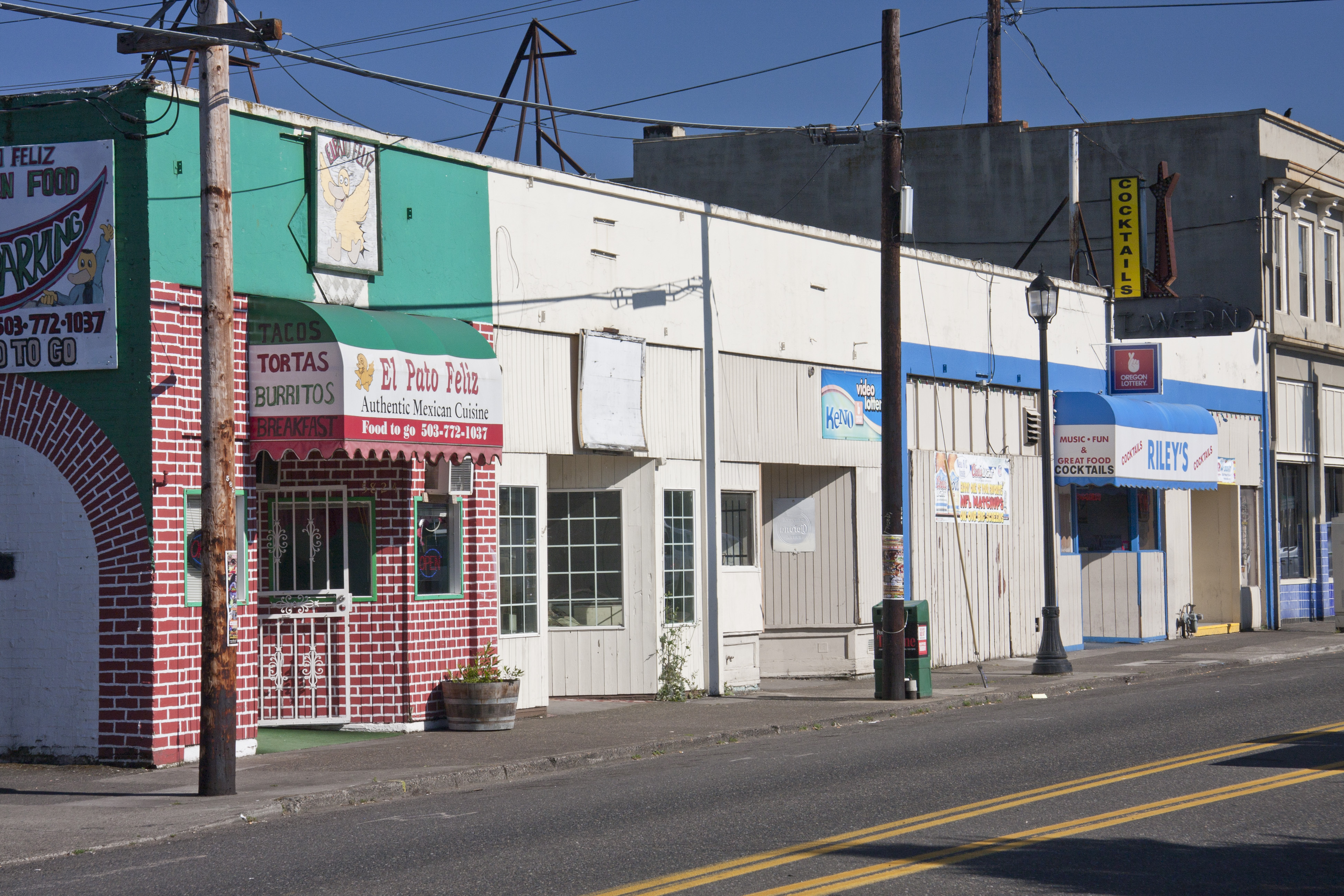 Potential PDC Storefront Improvement Program recipient